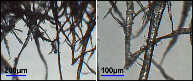 Cellulose fibers in paper (tissue). Microphotographer: Akroti (2006)